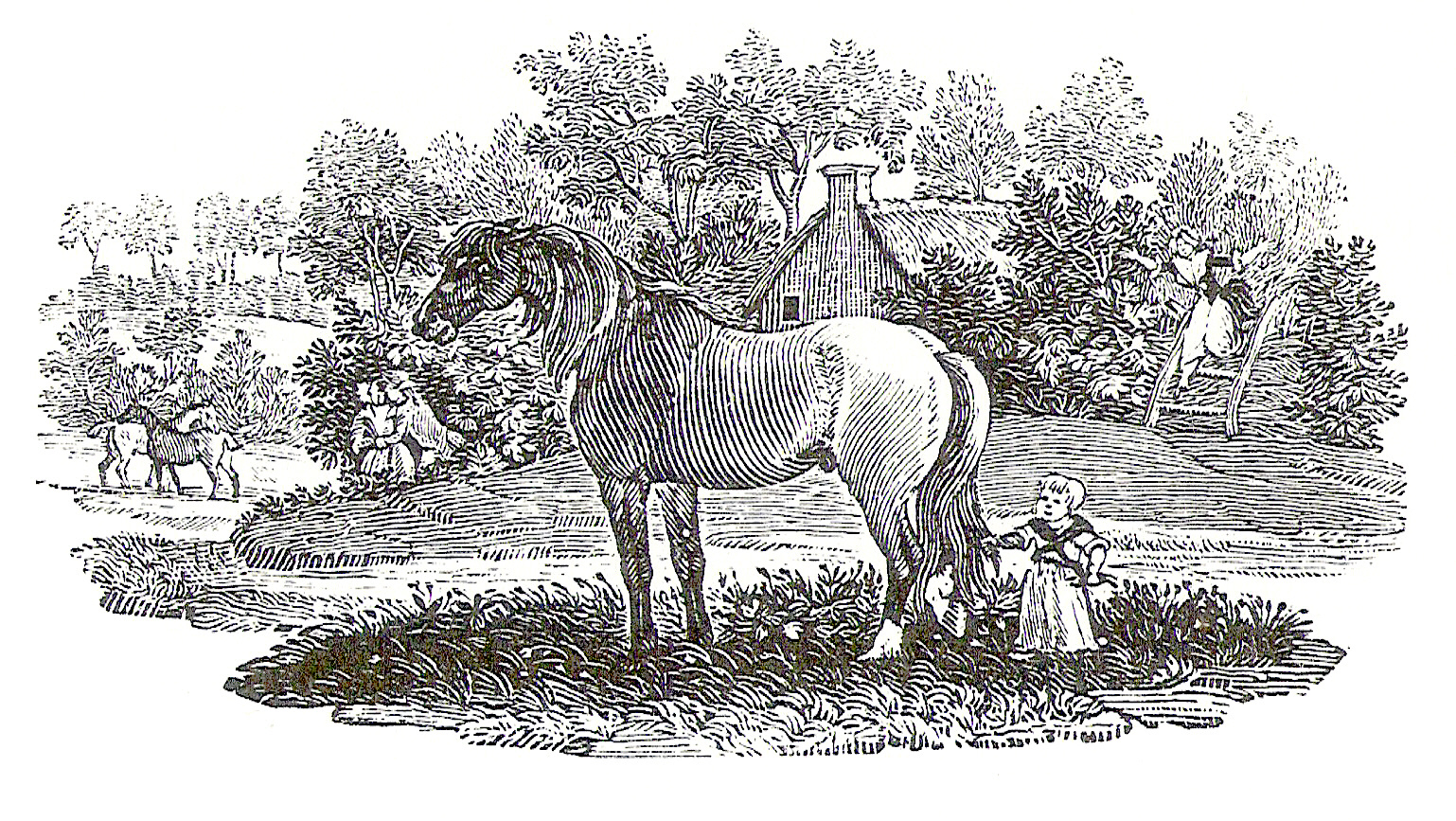 A tail-piece from The General History of Quadrupeds (2nd edition). Austin Dobson (1840-1921), the poet and biographer, describes it thus: "The tottering child, whose nurse is seen in the background, has strayed into the meadow, and is pulling at the tail of a vicious-looking colt, with back-turned eye and lifted heel. Down the garden-steps the mother hurries headlong; but she can hardly be in time" (in Andrew Lang, The Library, Chapter V)